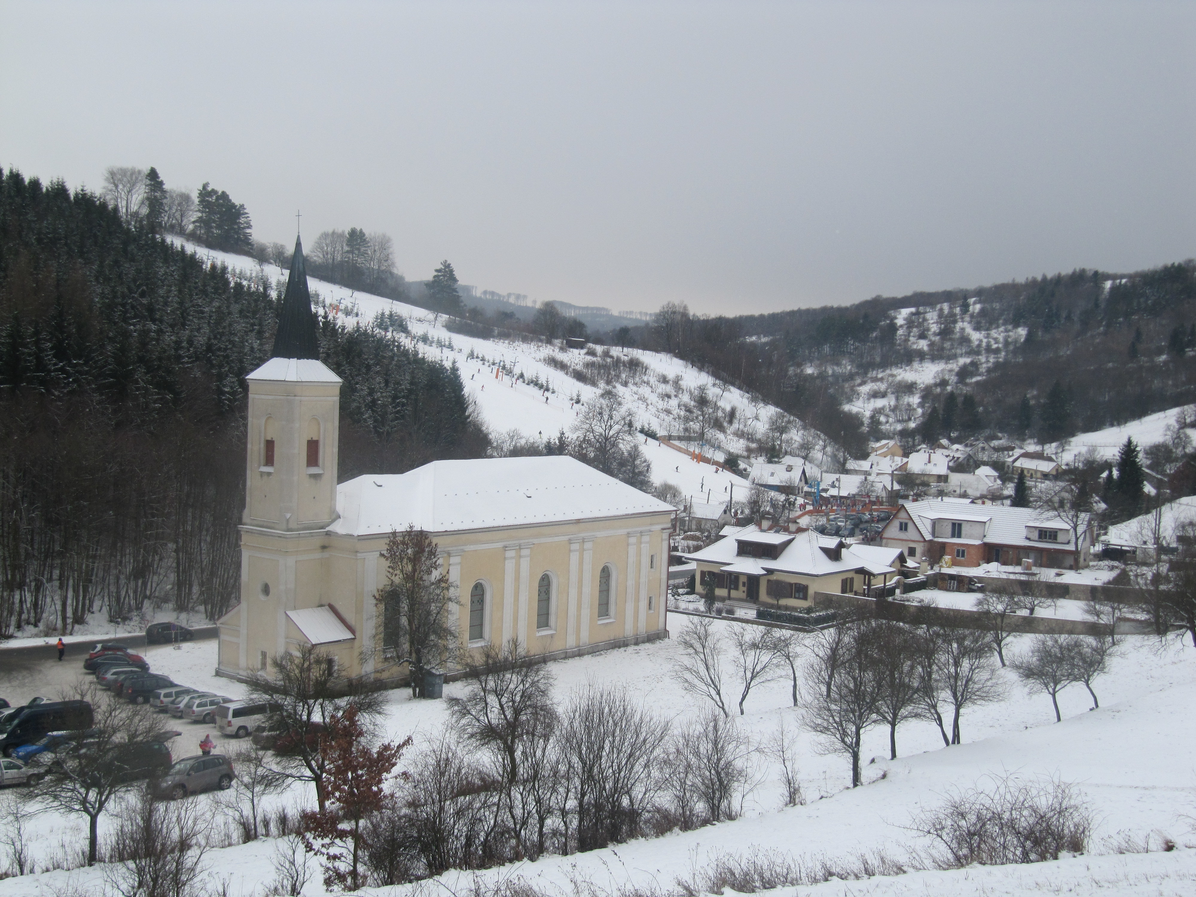 Stupava in Uherské Hradiště District, Czech Republic. Church in winter, in the background the ski slope.